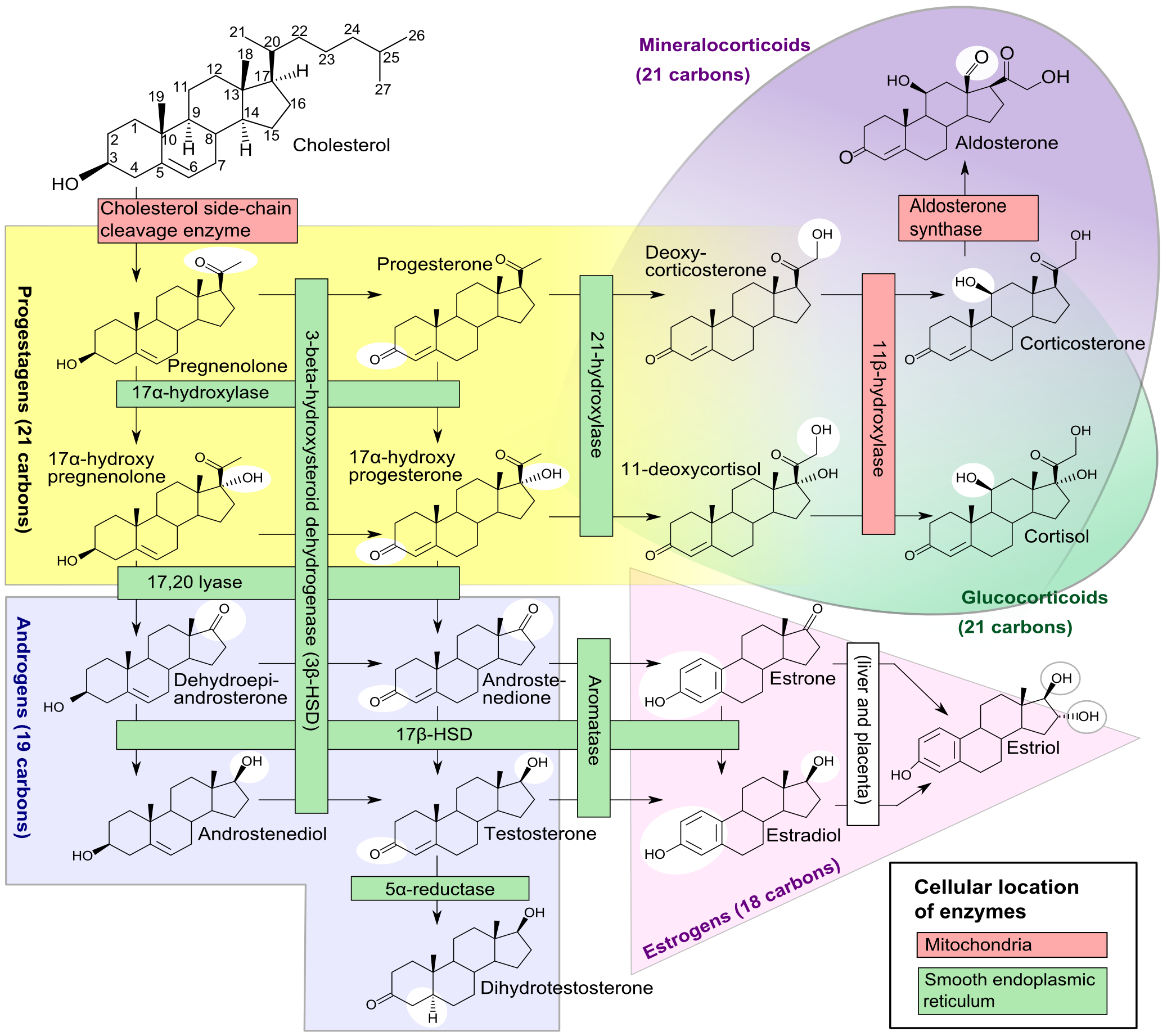 Enzymes, their cellular location, substrates and products in human steroidogenesis. Shown also is the major classes of steroid hormones: progestagens, mineralocorticoids, glucocorticoids, androgens and estrogens. However, they partly overlap, e.g. mineralocorticoids and glucocorticoids. White circles indicate changes in molecular structure compared with precursors. For more information on interpretation of molecular structures, see Wikipedia:structural formula. HSD: Hydroxysteroid dehydrogenase References: Walter F. Boron, Emile L. Boulpaep (2003) Medical Physiology: A Cellular And Molecular Approach, Elsevier/Saunders, pp. page 1,300 ISBN: 1-4160-2328-3. For the absence of conversion of corticosterone to cortisol: Steroid hormone biosynthesis - Reference pathway (KO) from Kyoto University Bioinformatics Center. 1/11/13 There is no appreciable conversion of corticosterone to cortisol in the adrenal cortex as 21-OH steroids are poor substrates for 17-alpha hydroxylase.